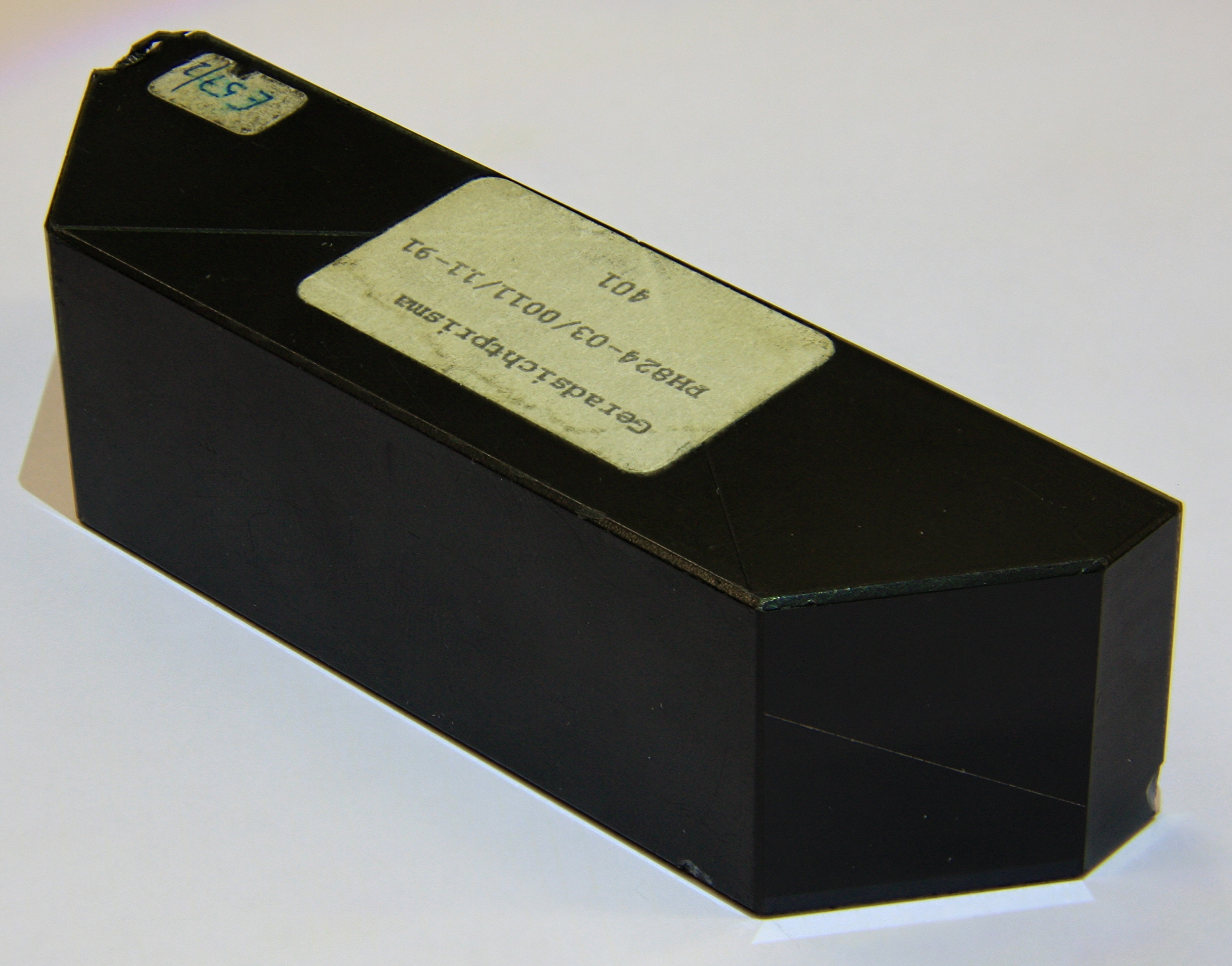 An amici direct-vision prism